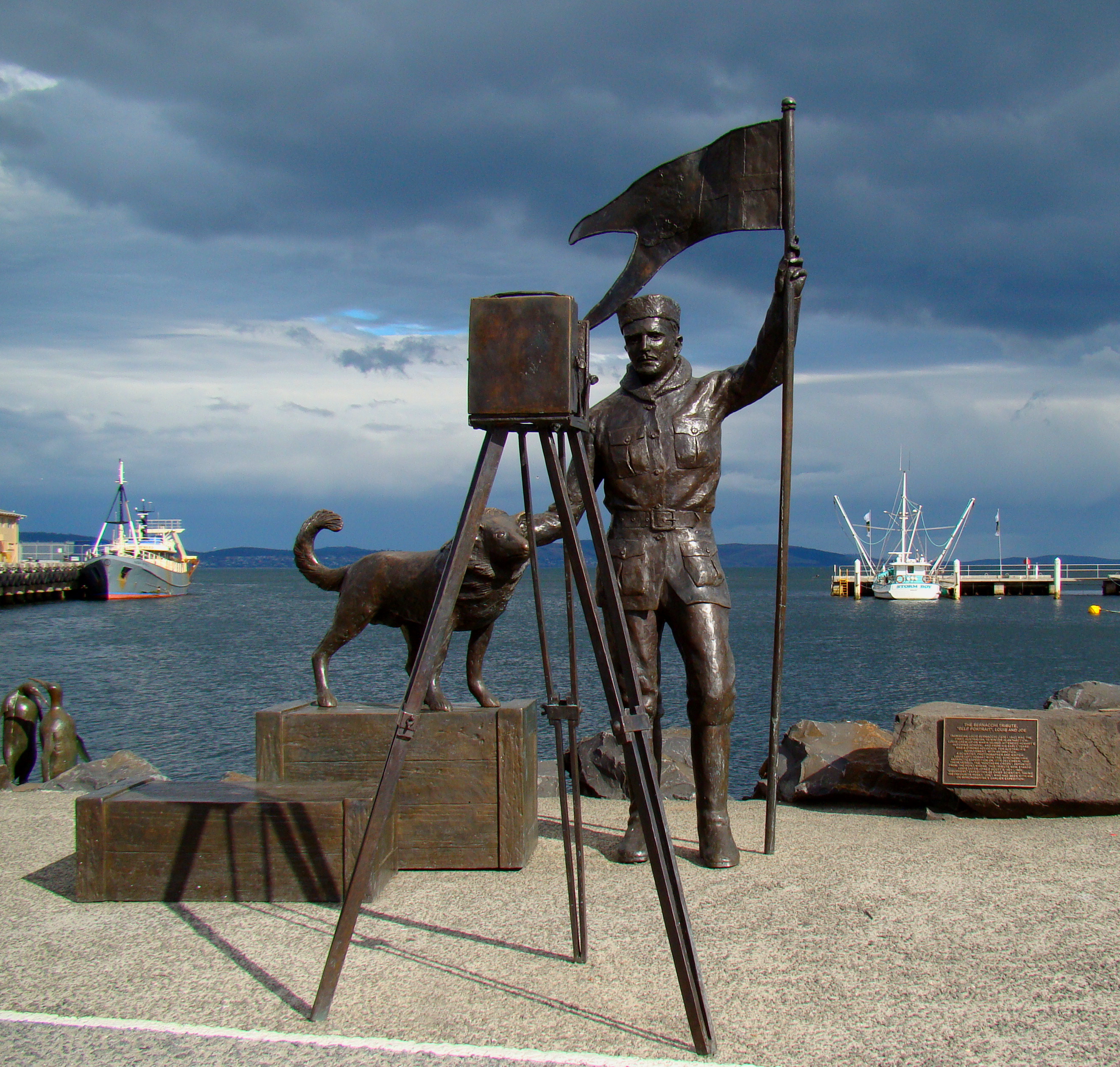 A tribute to the Tasmanian Antarctic explorer Louis Bernacchi, erected in the port of Hobart, Tasmania. The sculpture is named "Self portrait, Louis and Joe", and shows Louis Bernacchi posing with his dog in front of an old-style camera.